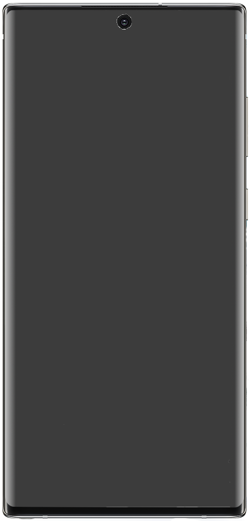 I've designed a Galaxy-Note-like vector for Wikipedia articles.